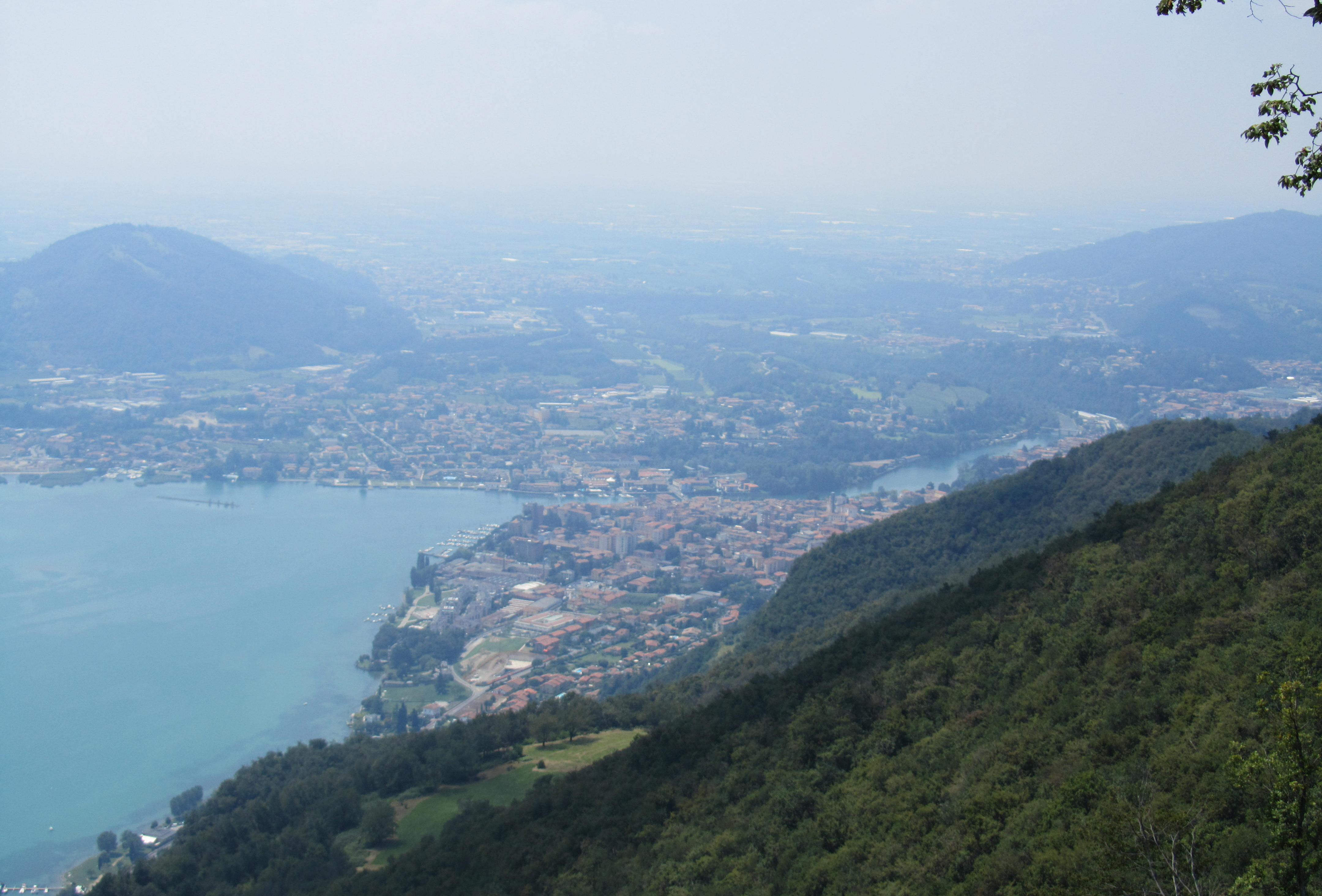 View over Sarnico (in the foreground), the outward flow of River Oglio, and Paratico (behind)